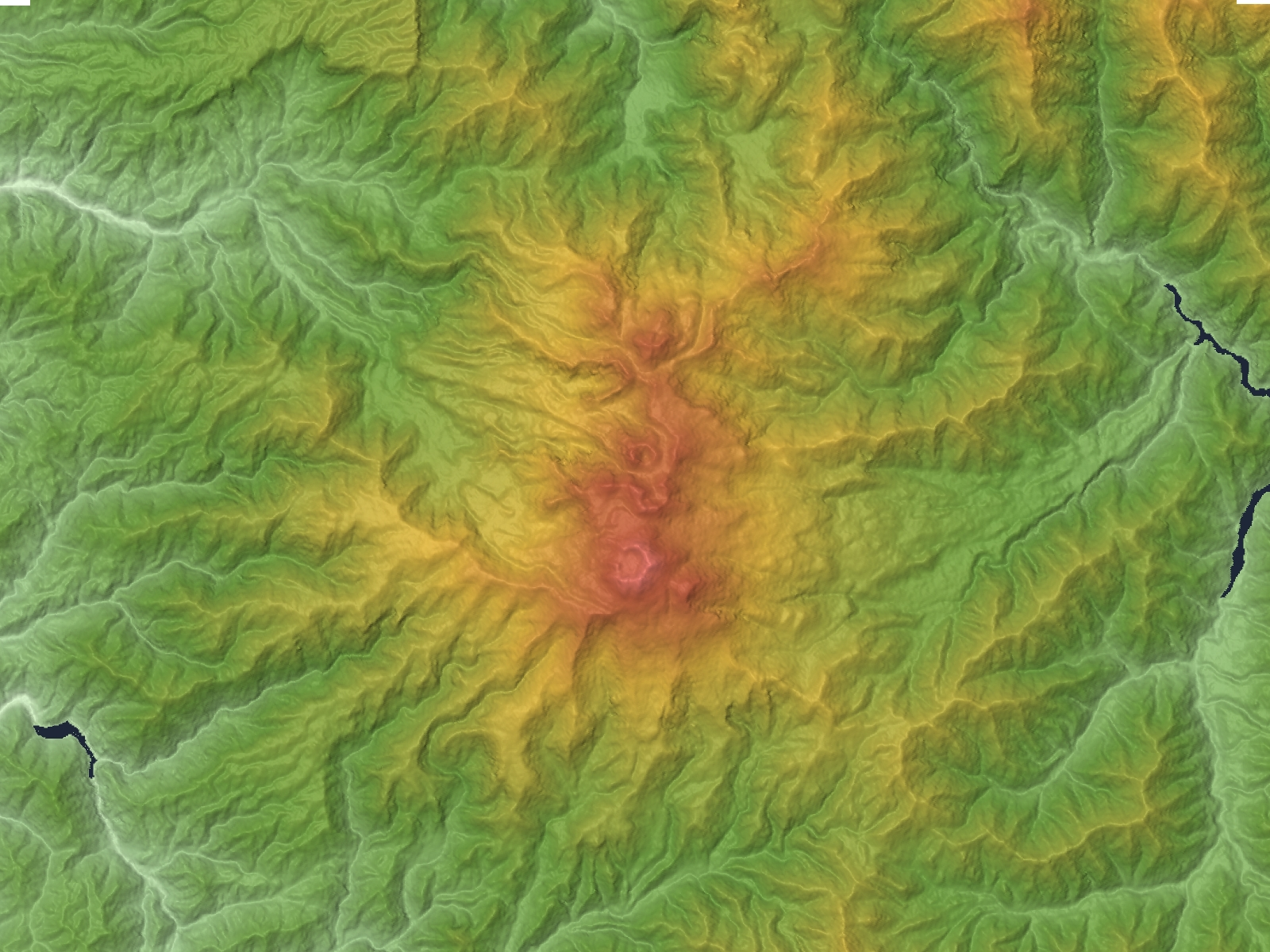 Mount Norikura (Morikura-dake) is a volcano in the border between Gifu and Nagano prefectures, Honshu, Japan.